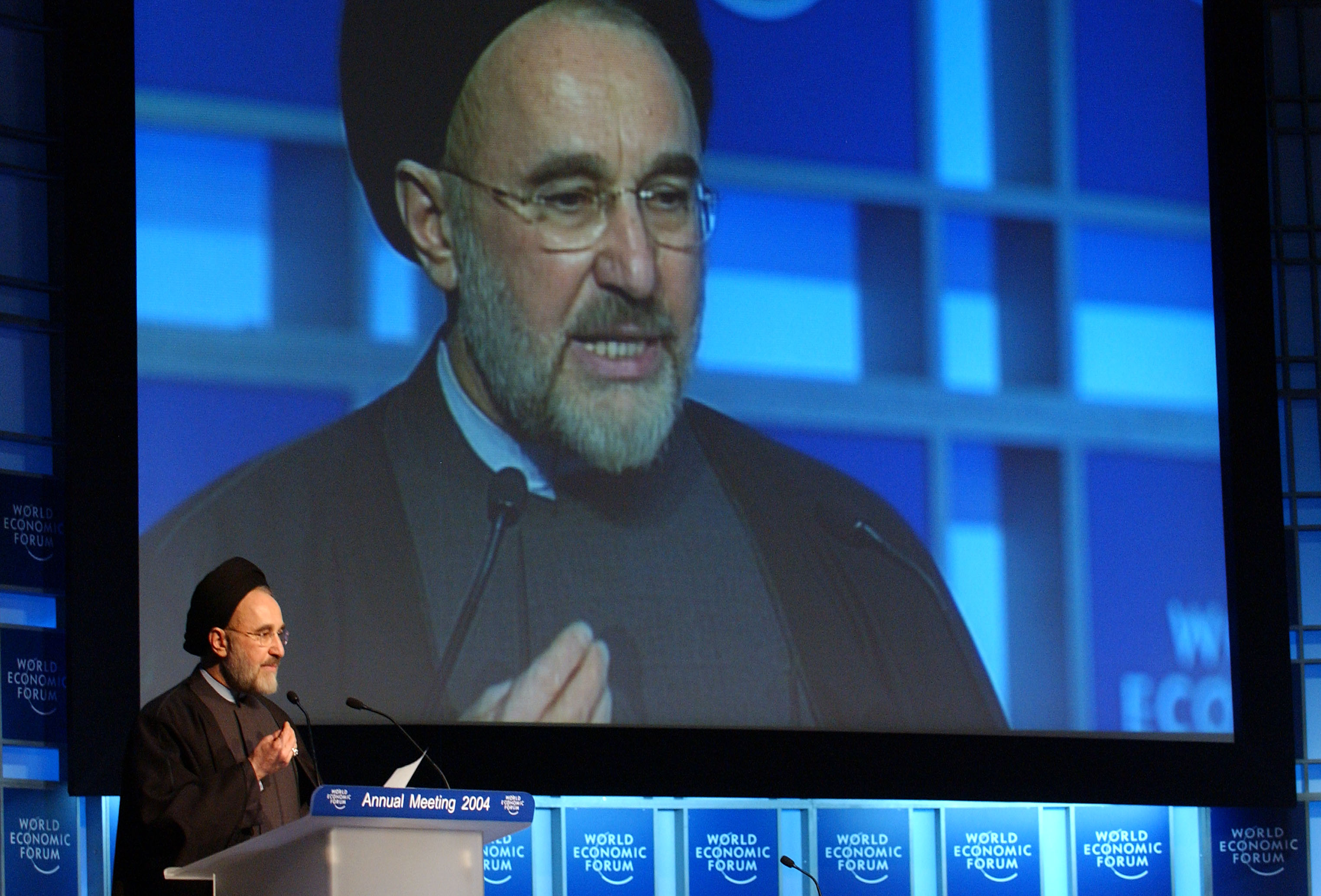 DAVOS/SWITZERLAND, 21JAN04 - H.E. Hojatoleslam Seyed Mohammad Khatami, President of the Islamic Republic of Iran, delivers a speech during the Welcome to the Annual Meeting 2004 of the World Economic Forum in Davos, Switzerland, January 21, 2004. Copyright World Economic Forum ( by Jean-Bernard Sieber